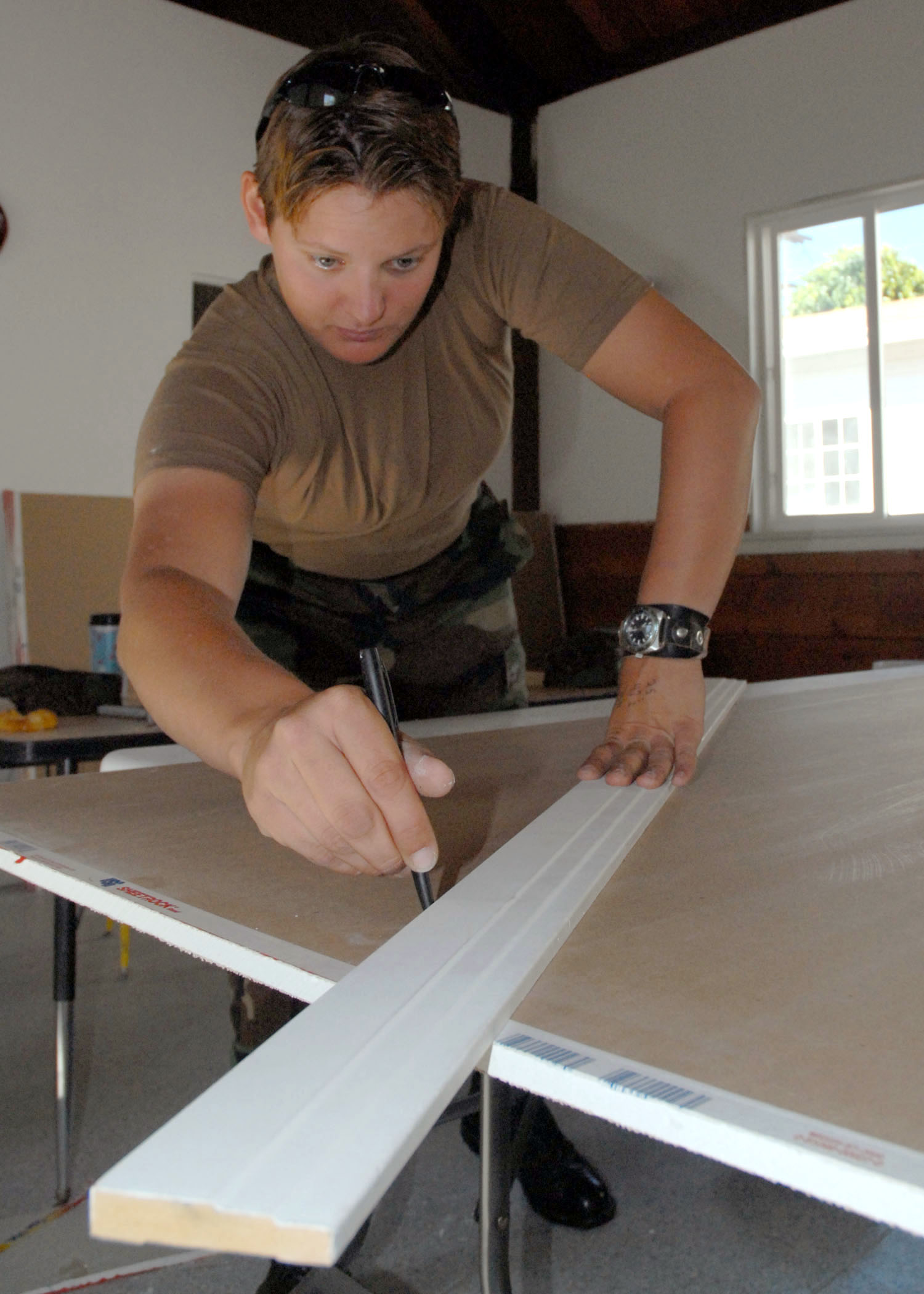 CAMARILLO, Calif. (Sept. 11, 2007) - Builder 3rd Class Tabitha E. Ball, of Naval Mobile Construction Battalion (NMCB) 5’s air detachment, marks sheetrock during a construction project that battalion Seabees volunteered to carry out at a local church. U.S. Navy photo by Mass Communication Specialist 3rd Class Patrick W. Mullen III (RELEASED)